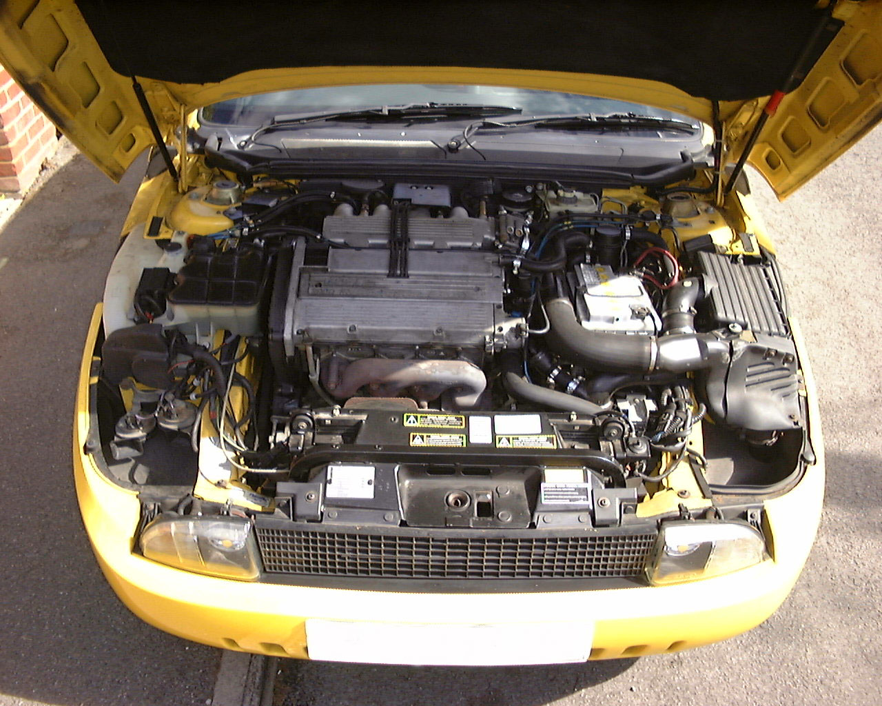 A engine mounted in a Fiat Coupé